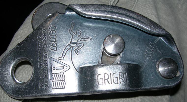 A Grigri belaying device from rock climbing facility in Ottawa.